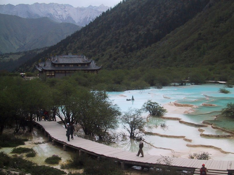 I took this photo myself. This is a picture of one of the colorful pools in Huanglonggou in Sichuan, China. ja:??:Huanglonggou Pools.jpg